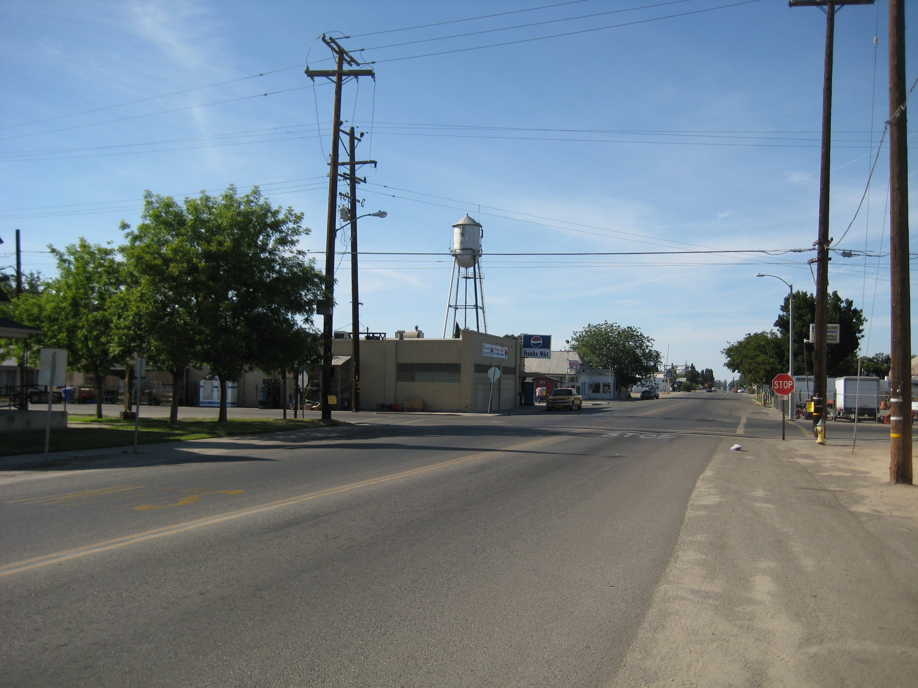 Photo of 14th Avenue in Armona, CA looking north